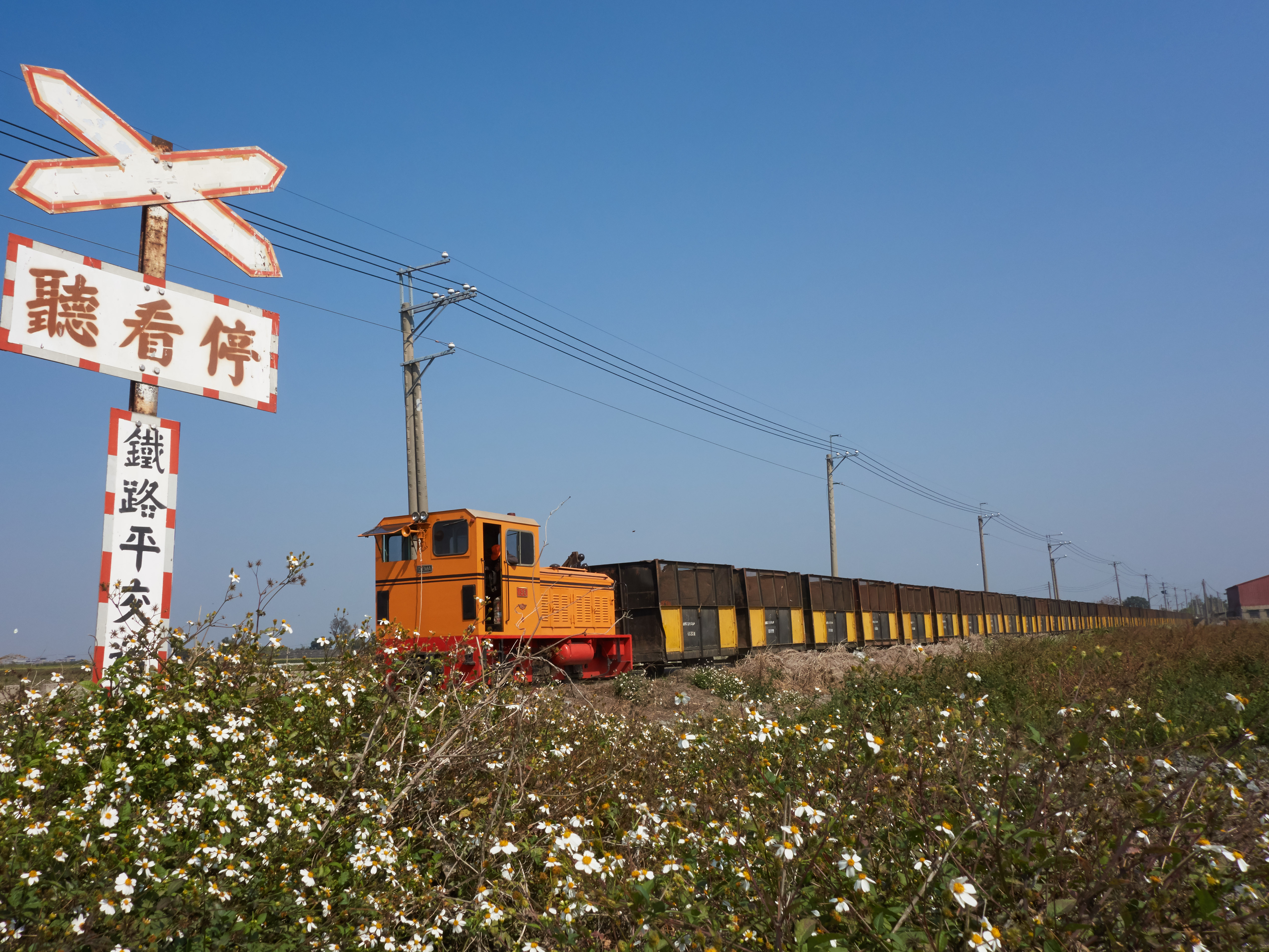 Sugar cane train ready to connect to fully laden trucks to take to the Huwei Sugar Factory.